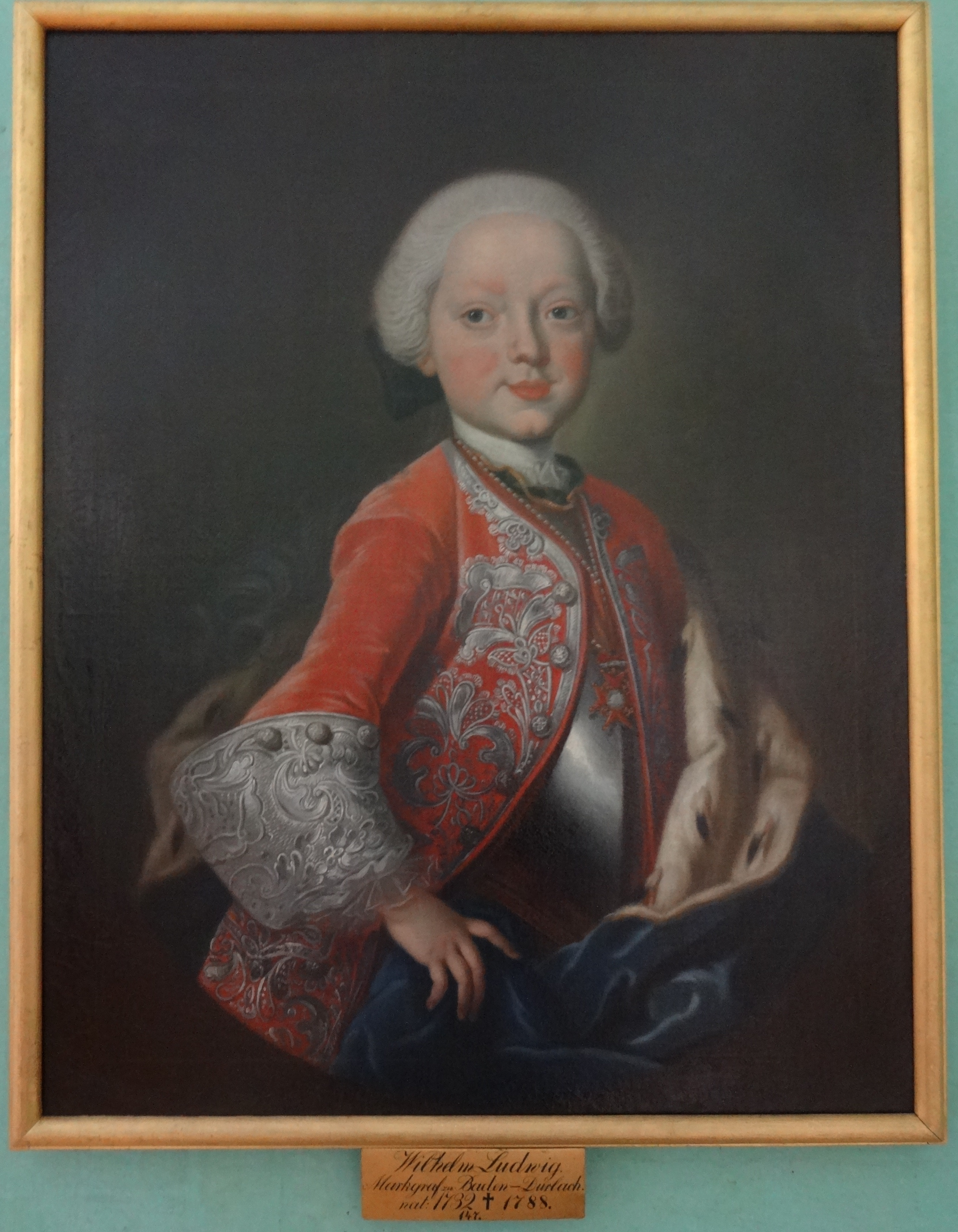 Portrait of William Louis, Prince of Baden (1732-1788)